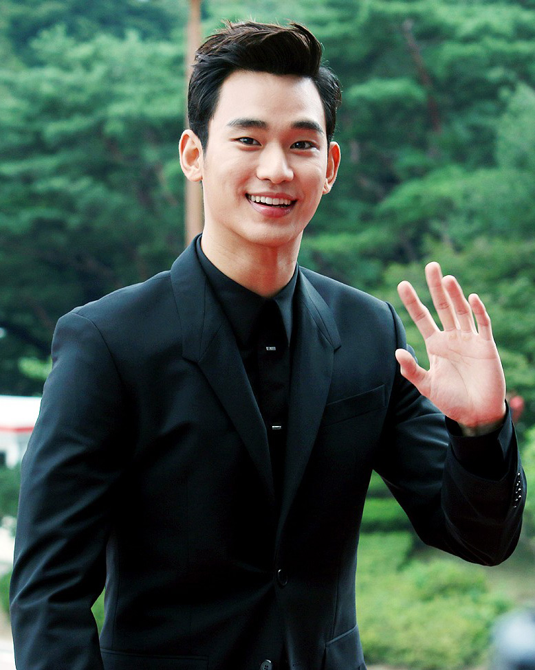 Kim Soo-hyun at the Seoul Drama Awards, 4 September 2014